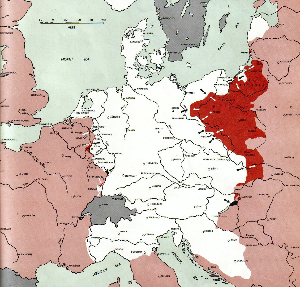 Map of the front against Germany: This map is taken from the source "Atlas of the World Battle Fronts in Semimonthly Phases to August 15th 1945: Supplement to The Biennial report of The Chief of Staff of the United States Army July 1, 1943 to June 30 1945 To the Secretary of War". (See Cover, Foreword and Map details)